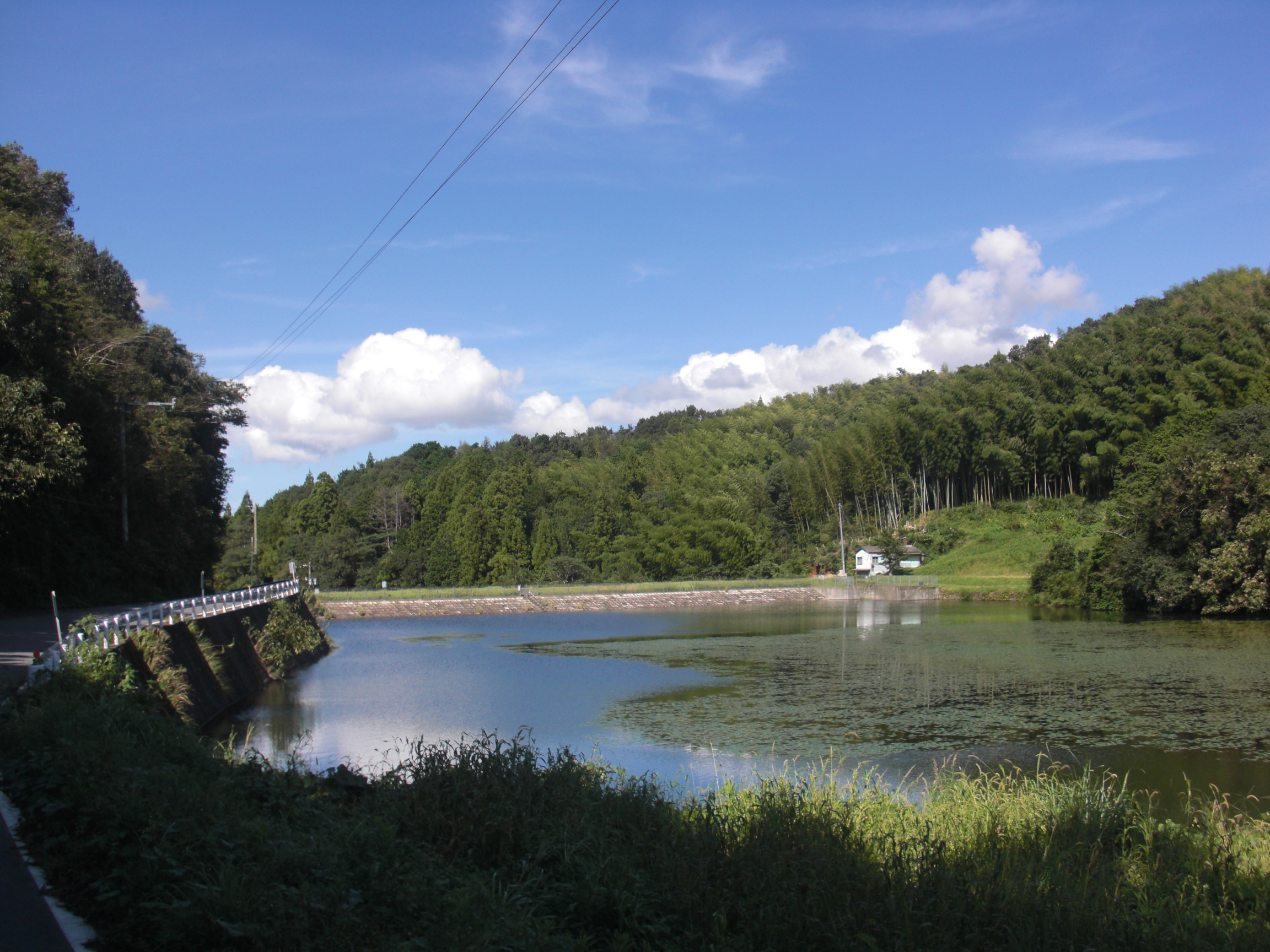 This is Yubu Pond in Taki, Mie, Japan.